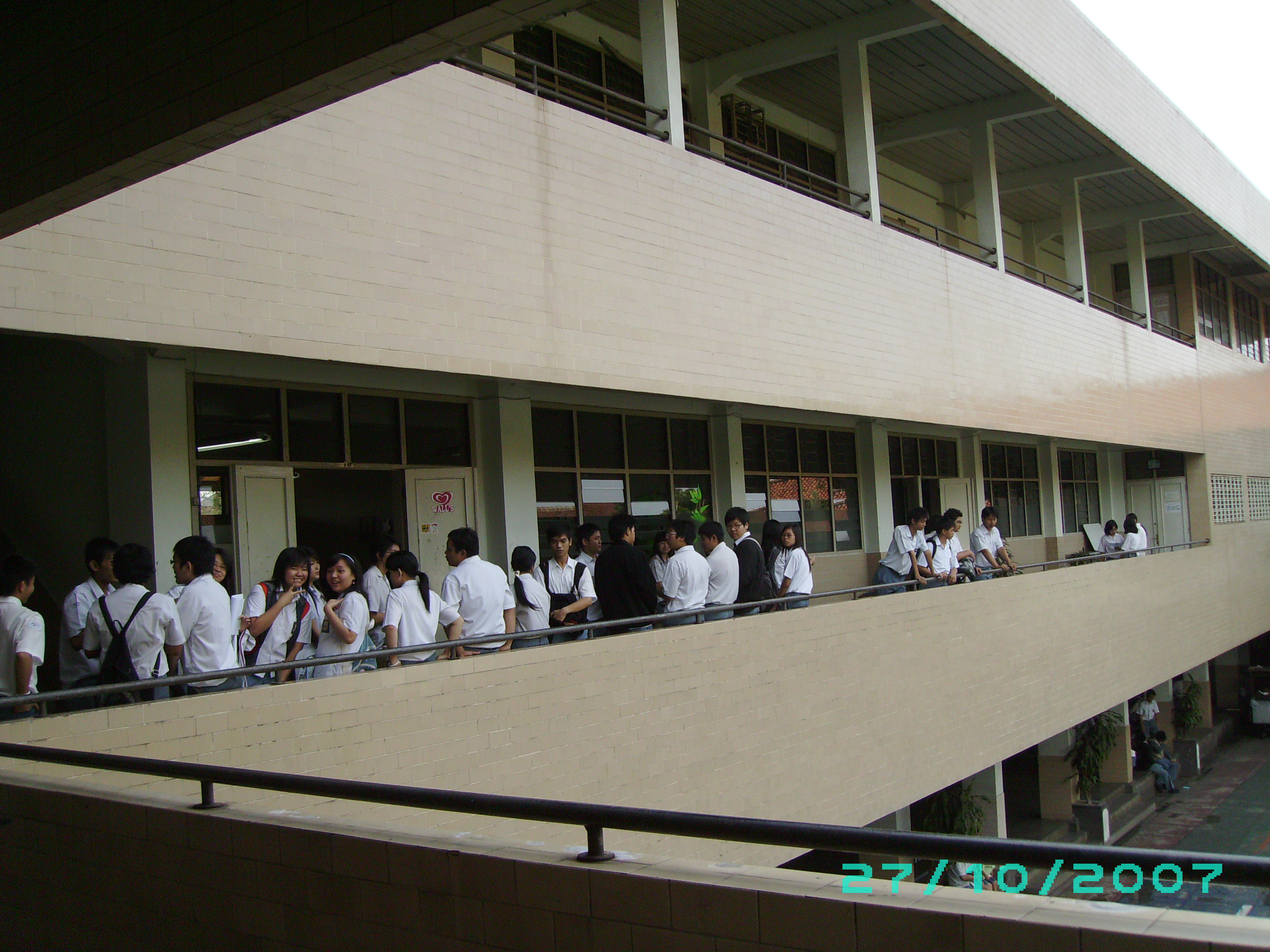 The view of SMA Trinitas' second floor soon after class dismissed